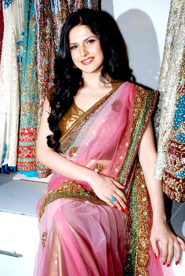 Zarine Khan at the launch of Veer Libas Collection